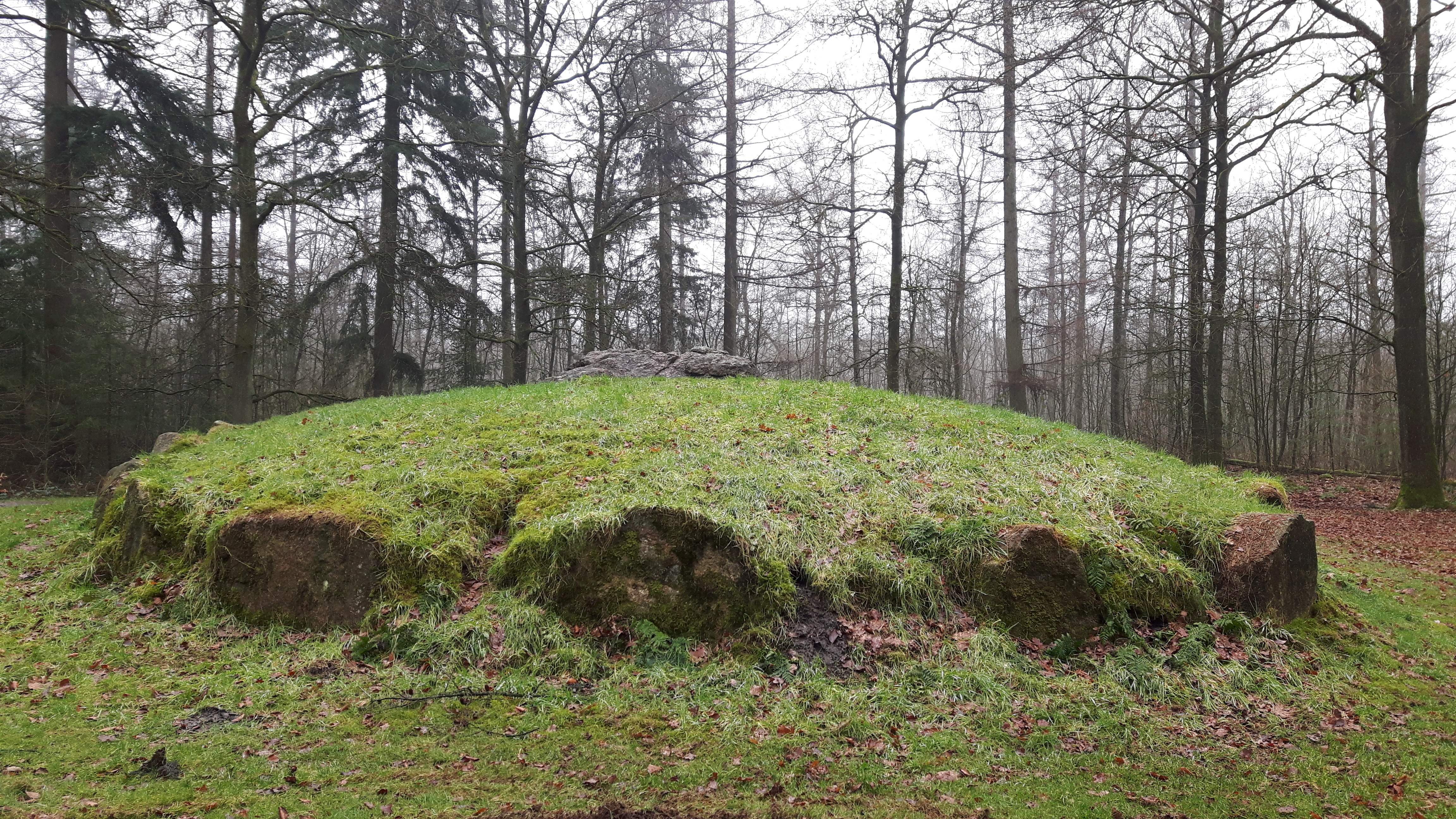 Dolmen D49